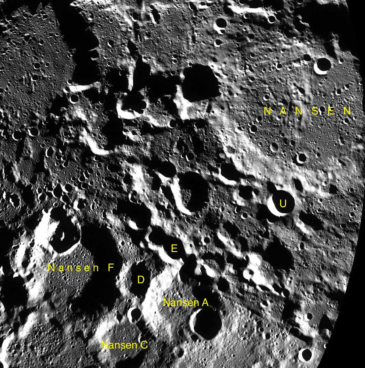 Part of the chart LAC-1 used for the presentation